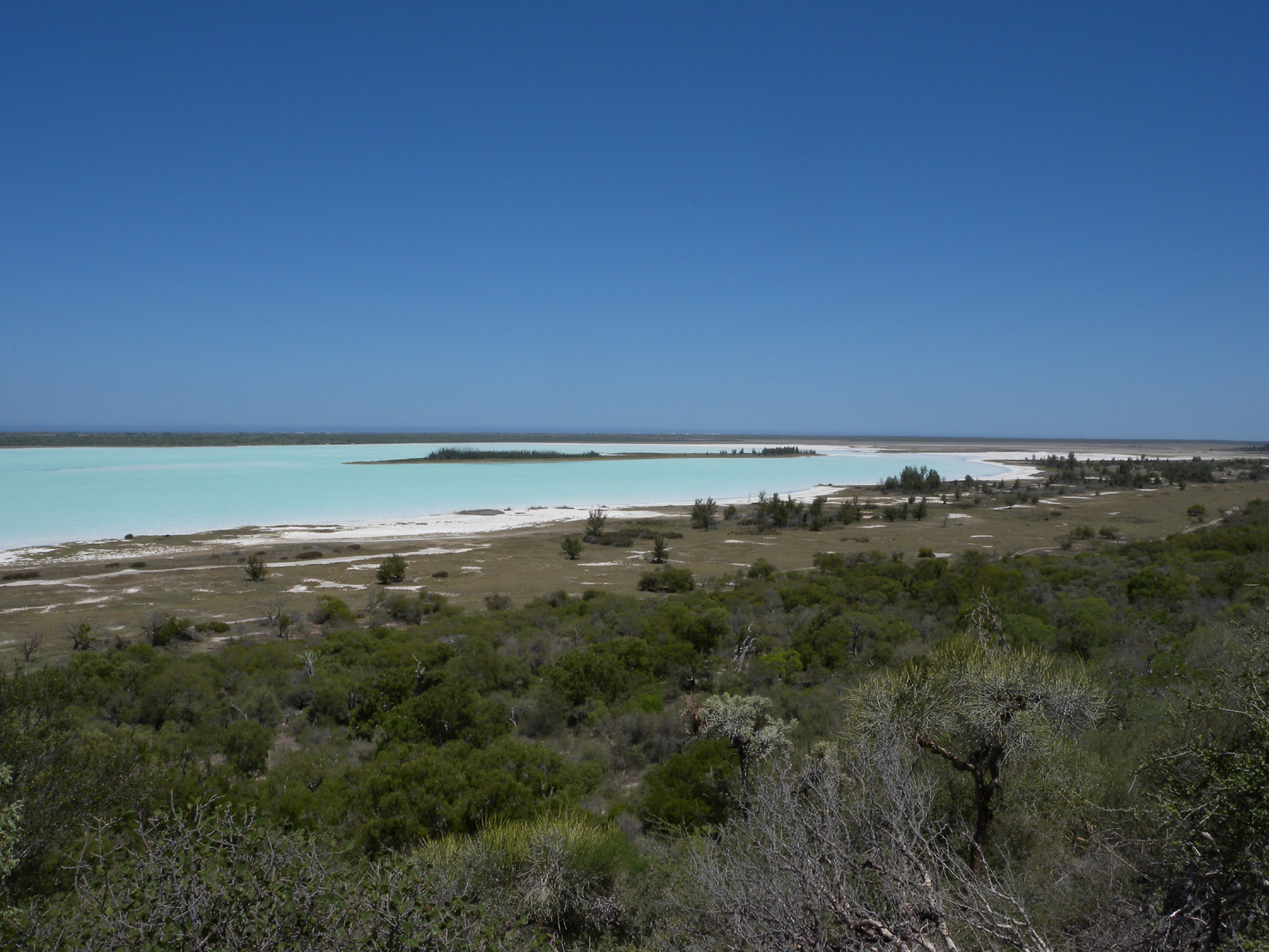 Lake Tsimanampetsotsa (which literally means “lake without dolphins” in Malagasy) is protected within a national park and as a Ramsar site. The lake directly precipitates carbonate in a closed evaporite basin defined by cliffs of Eocene marine limestone to the east (in front of the picture) and a wide strip of alluvium capping low outcrops of limestone to the west, towards the Channel of Mozambique. As such, this lake is one of the rare modern equivalents for the spectacular Lagerstätten-producing alkaline playa lakes of the fossil record. The extremely low gradient within its basin produces dramatic changes in the aerial extent in response to seasonal changes in rainfall. These seasonal fluctuations create broad hyper-saline mudflats around the core lake area.